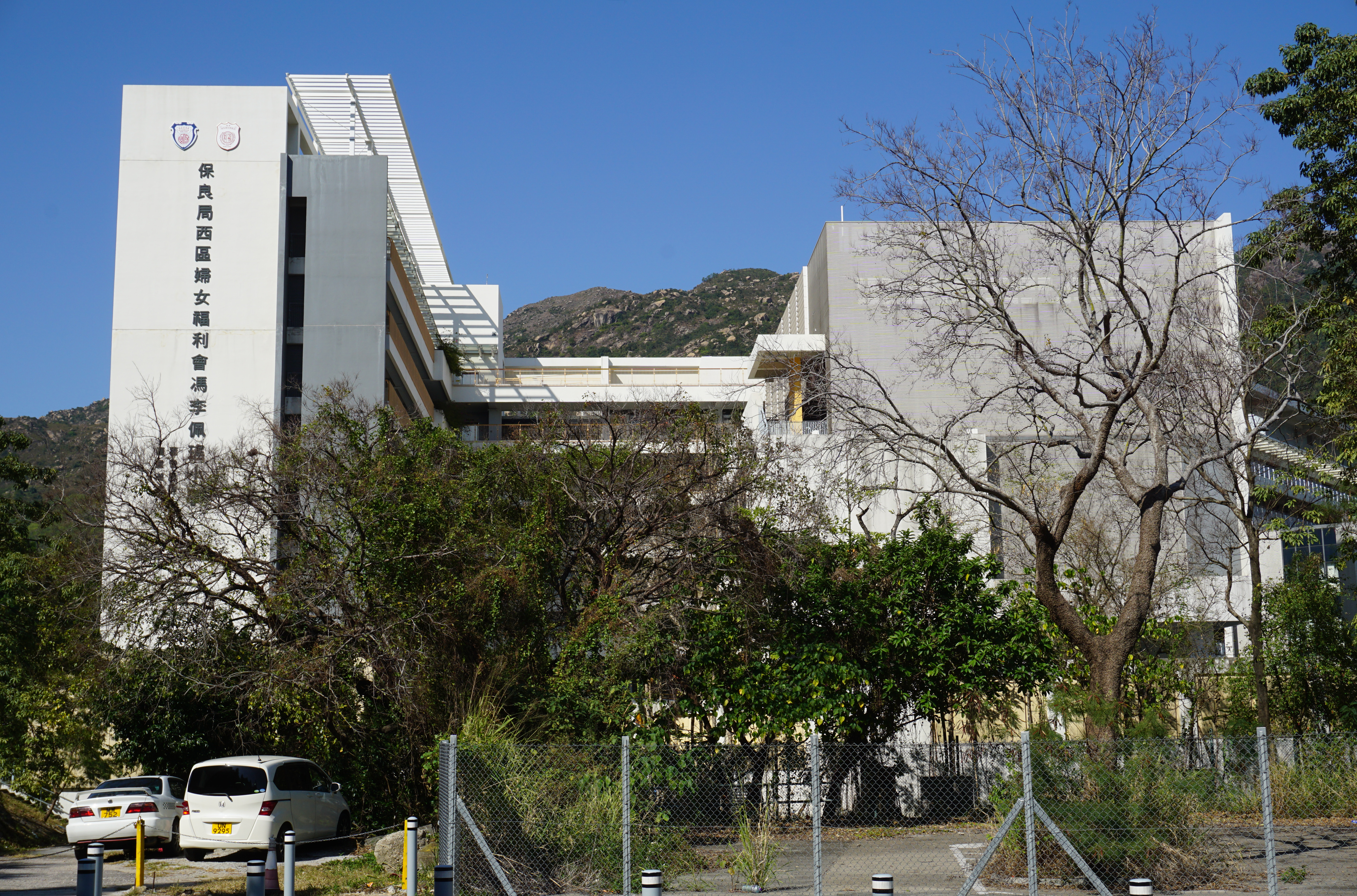 PLK Women's Welfare Club Western District Fung Lee Pui Yiu Primary School in So Kwun Wat, Hong Kong.